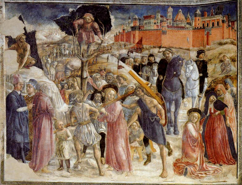 Cathedral of Siena-fresco on the wall of the apse